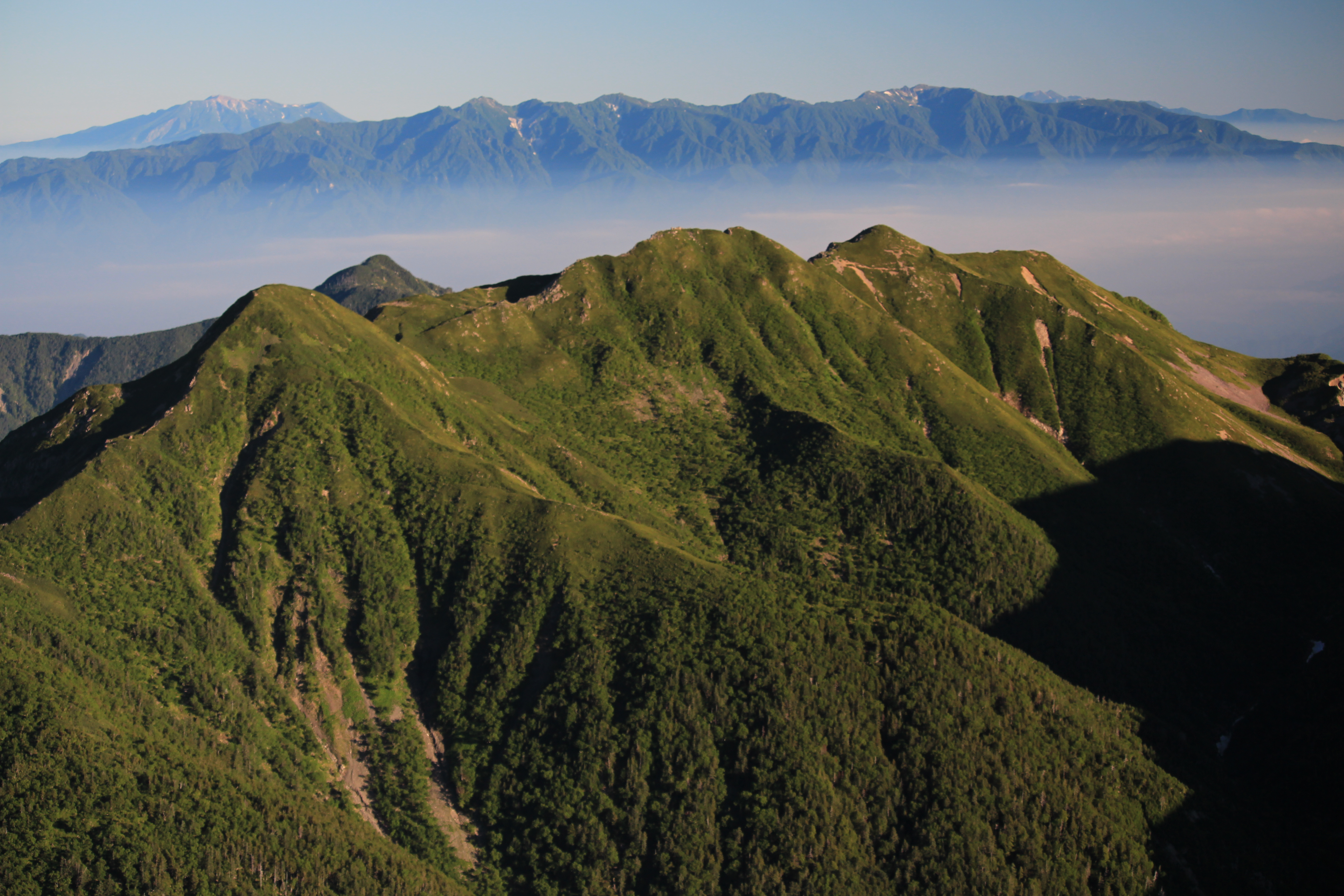 Mount Nakamorimaru, Mount Ōsawa and Kiso Mountains seen from Mount Oku-hijiri, in Akaishi Mountains, Japan.